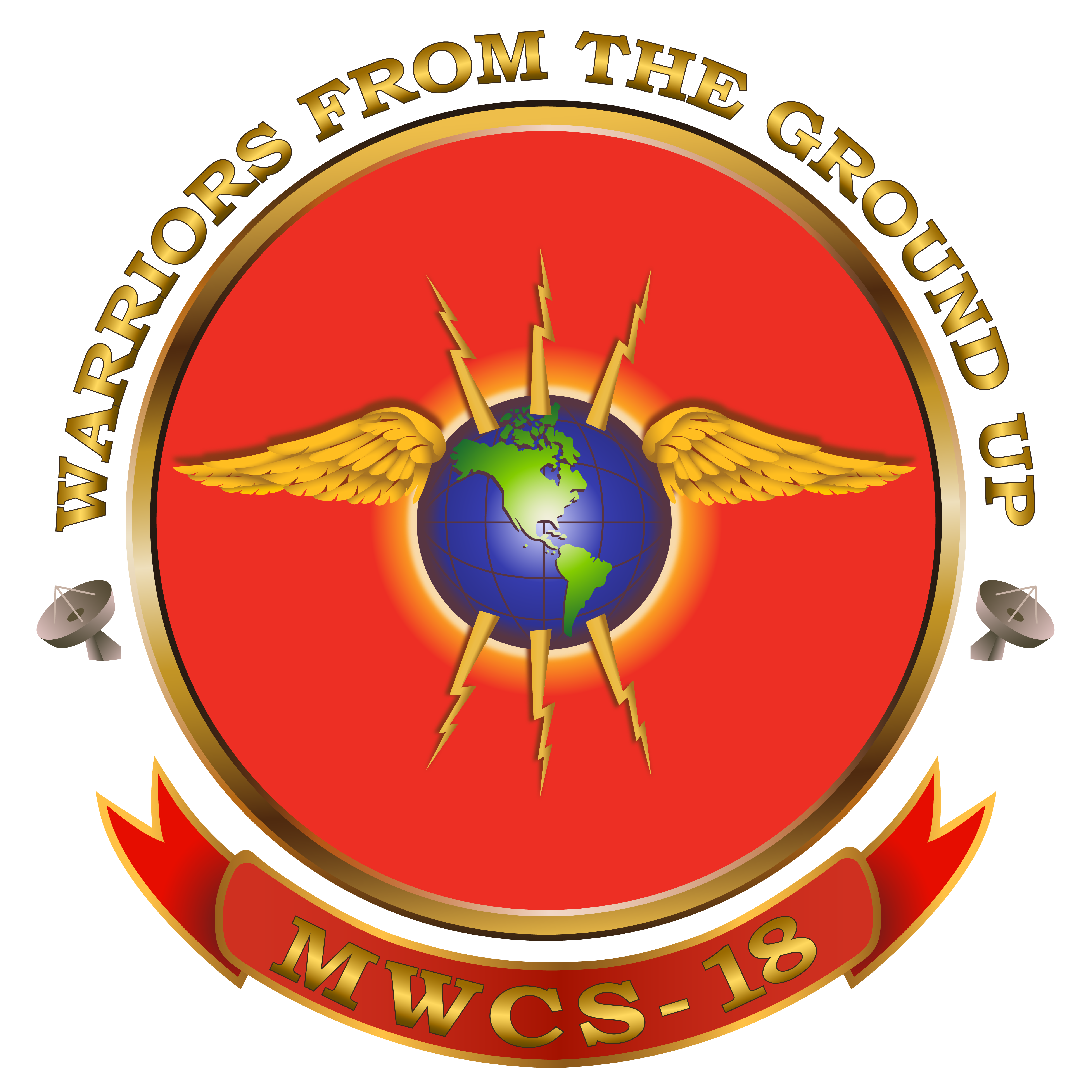 Battalion insignia for Marine Wing Communications Squadron 18.